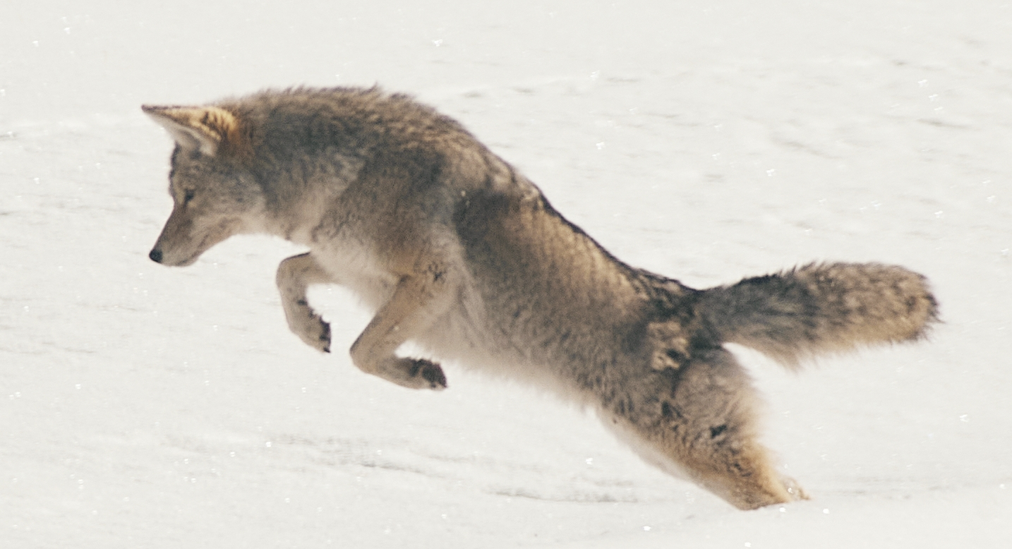 A coyote pouncing in Yellowstone National Park